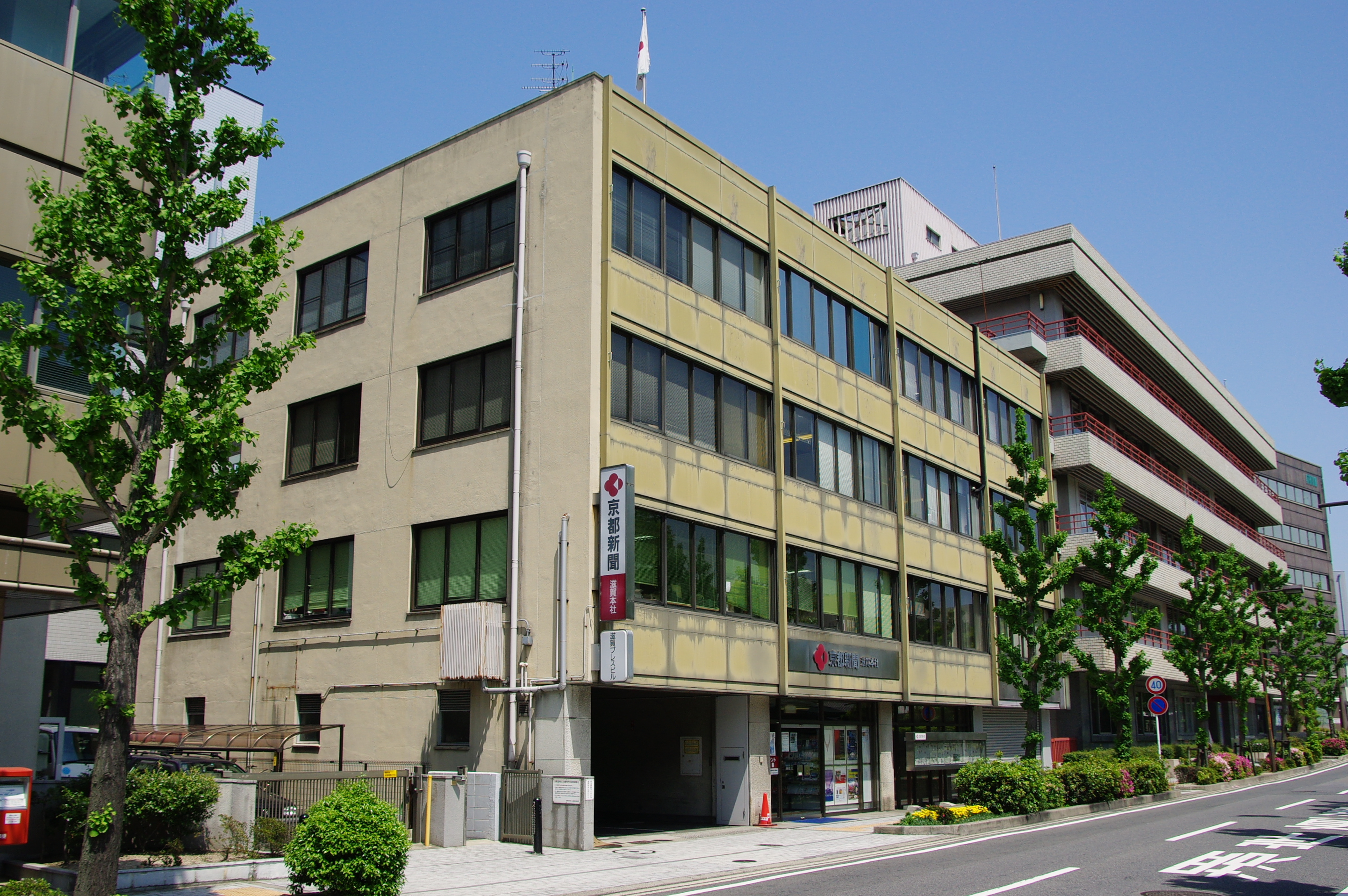 Photograph of Shiga Press Building, Shiga Head Office of Kyoto Shimbun Newspaper Company, in Otsu, Shiga Prefecture, Japan.